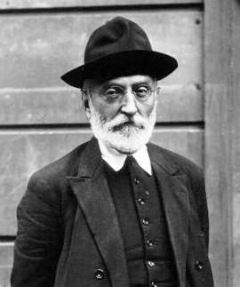 Spanish writer and philosopher Miguel de Unamuno (1864-1936).